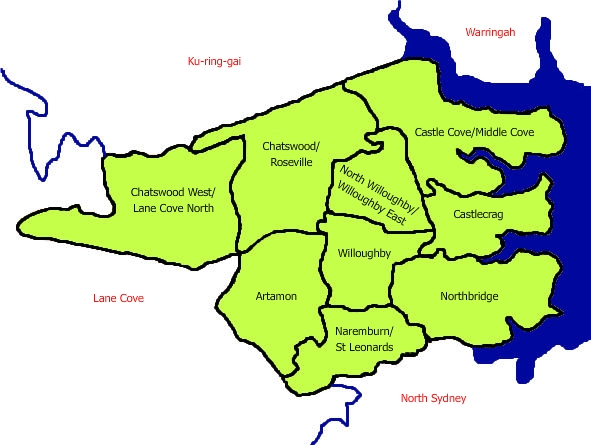 Map of the suburbs controlled by Willoughby council. Image created by uploader